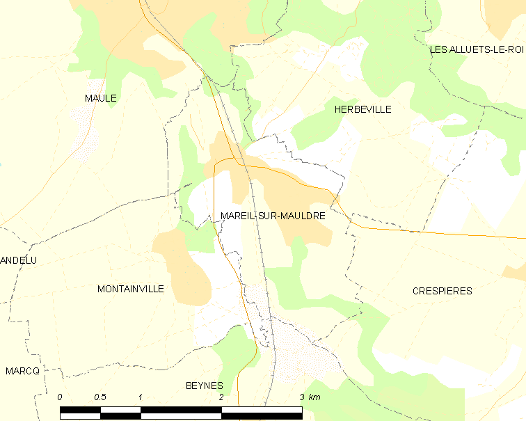 Map of French municipality Mareil-sur-Mauldre